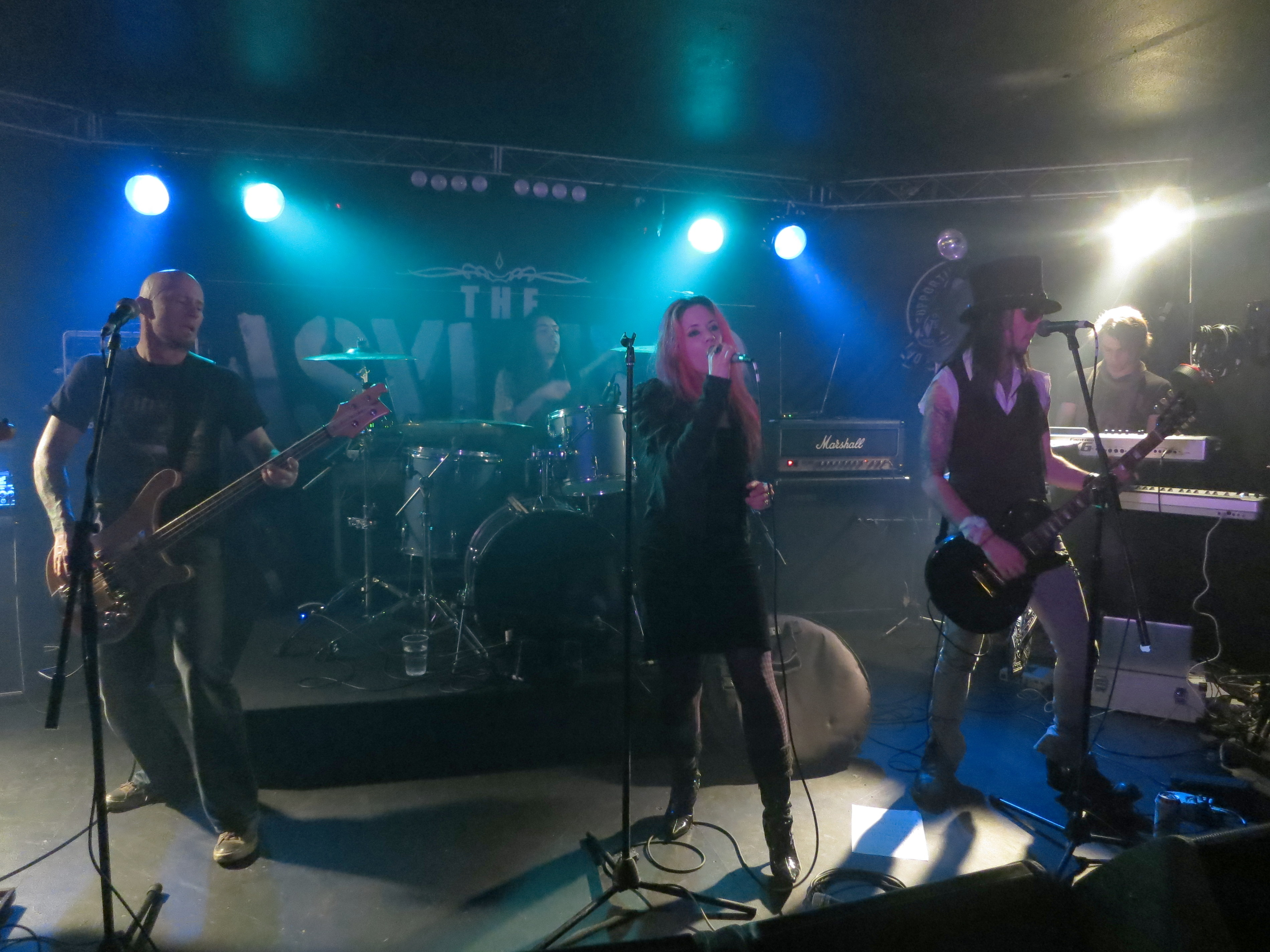 Hanging Doll performing at The Asylum in Birmingham in 2013